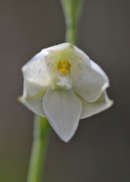 Unusual colour form of Thelymitra juncifolia